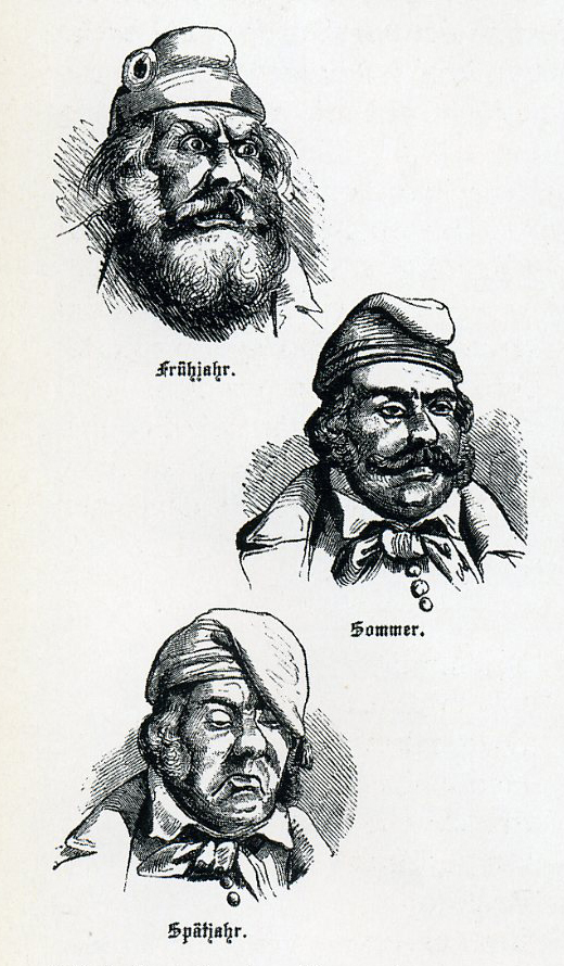 Deutscher Michel throughout the revolution of 1848: Spring ("early year"), Summer, and Fall/Winter ("late year").